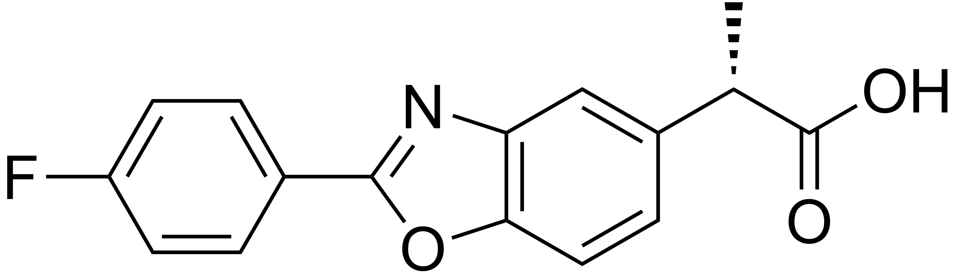 chemical structure of flunoxaprofen